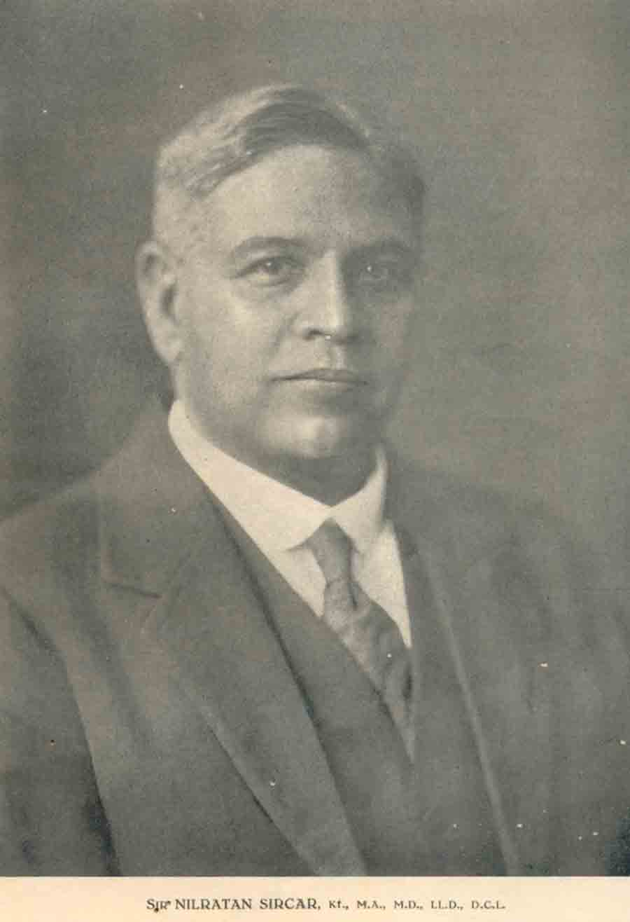 Doctor and philanthropist Born: October 1, 1861 Died: May 18, 1943 Born in a poor family, Nil Ratan started his education at the local school in 24-Parganas. He took his medical degree from Calcutta University. Though his private practice flourished, he was known for his kindness and would treat poor patients for free. He had a major role in the setting up of the Indian Medical Association. He was the co-founder of Carmichael Medical College which later became R.G. Kar Medical College. He was Calcutta University vice-chancellor from 1919 to 1921. He was active in the Indian National Congress and invested generously in various national industrial projects. He was a trustee at Basu Vijnan Mandir, Visva Bharati and the Indian Museum. After his death, the Campbell Medical School in Sealdah, where Sarkar had died, was renamed after him as Dr Nilratan Sircar Medical College and Hospital. He was honoured by the Oxford and Cambridge universities.